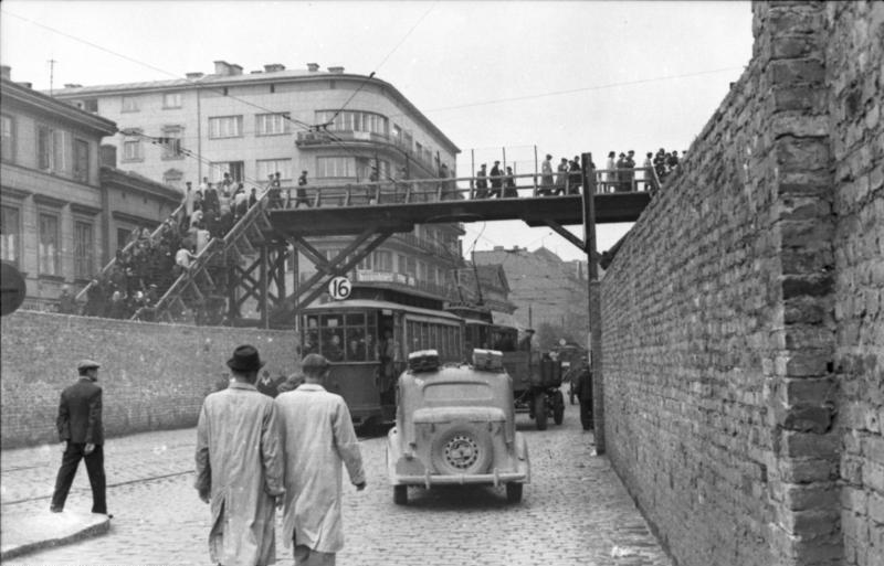 Warsaw Ghetto: Chłodna Street (looking West) from the intersection with Żelazna Street. The street was Aryan and above the street one can see a wooden bridge connecting Small and Big Ghetto. In the back the Chłodna 25 building.